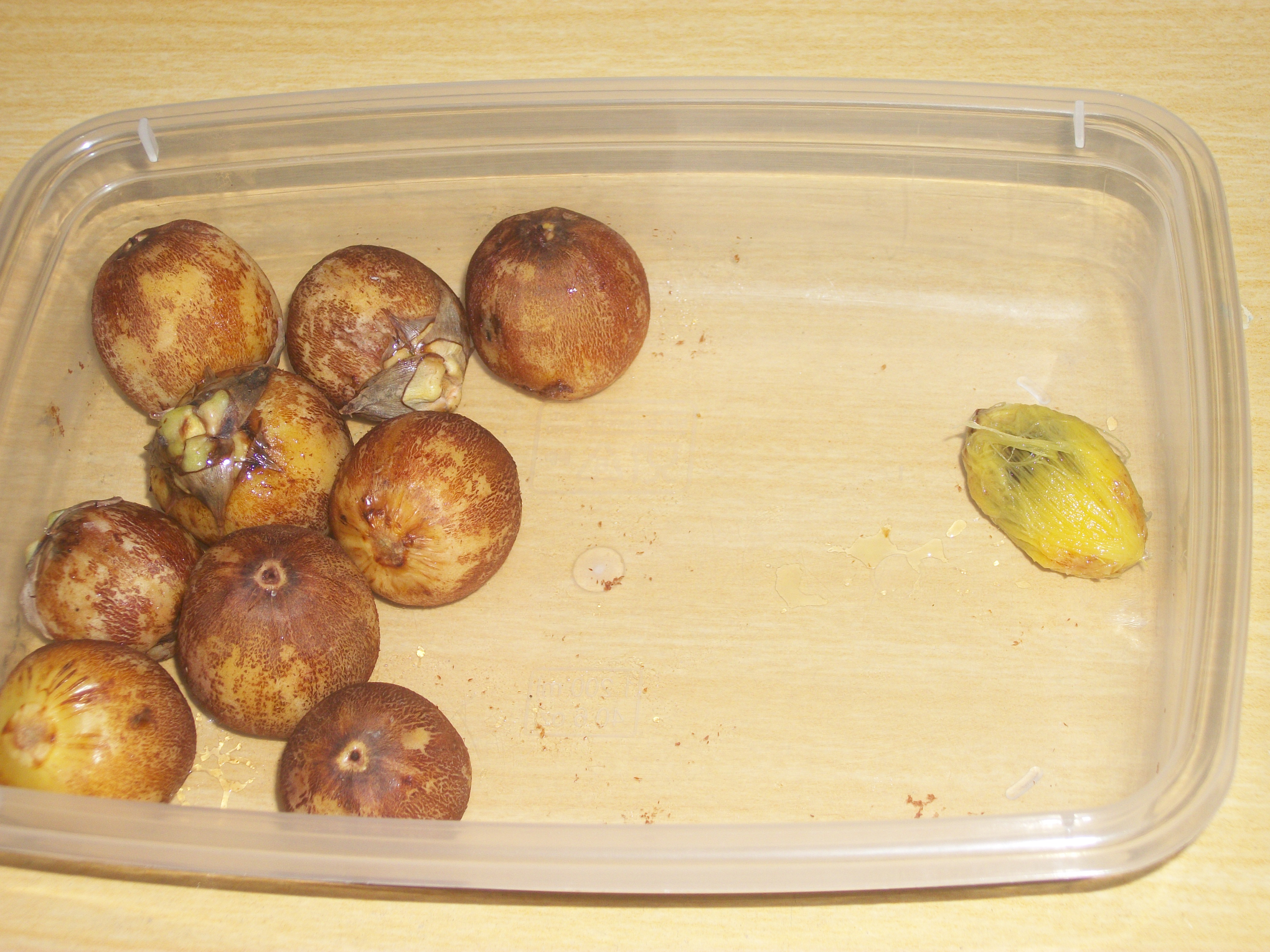 Cocos-drool in detail